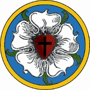 This is a merged image of the public domain, original black and white Luther's seal & the colored, vector version version released by the LCMS, and already found in the Commons under the GNU license.